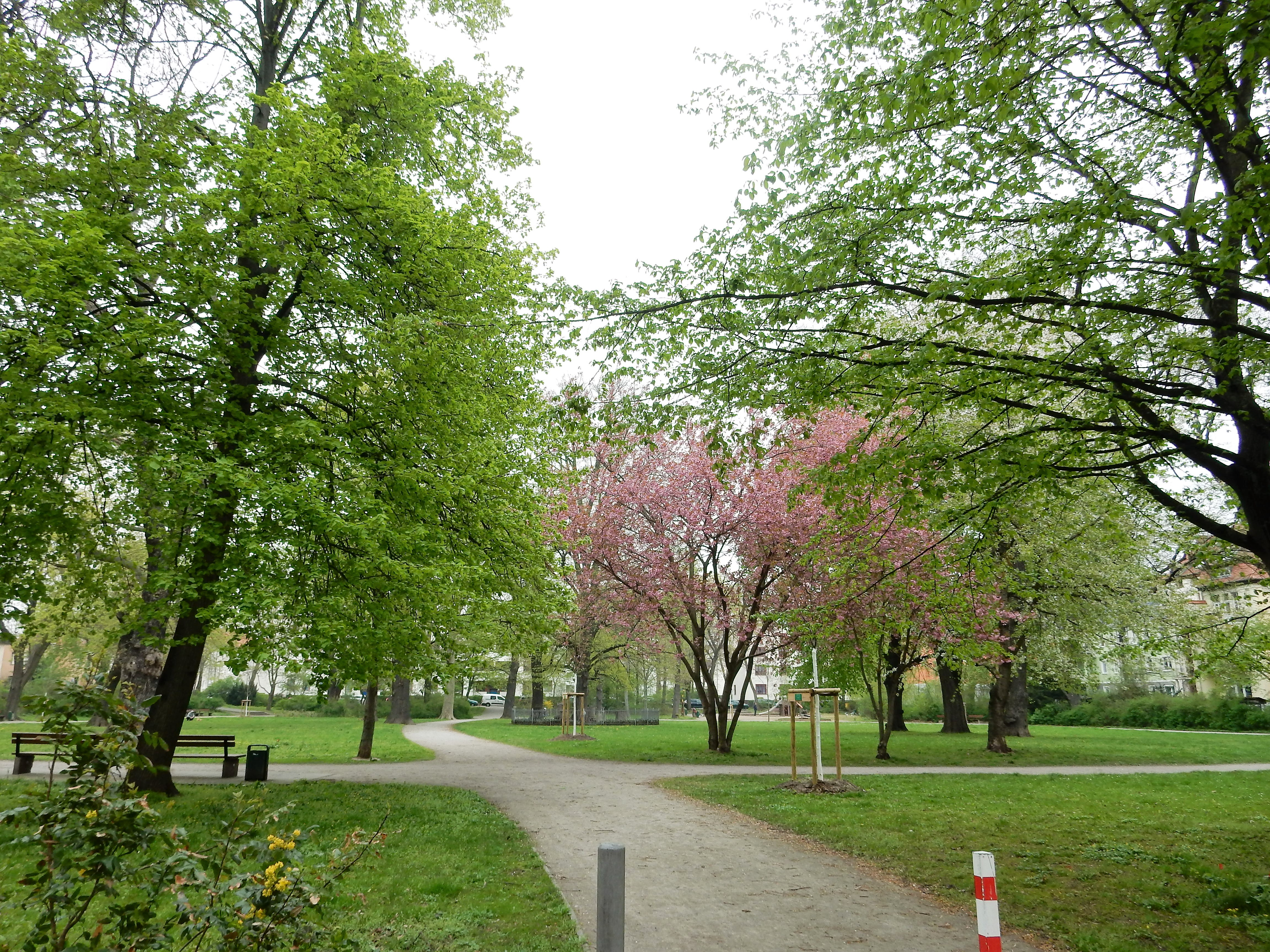 Magdeburg, Schneidersgarten, view from Schneidersgartenstrasse